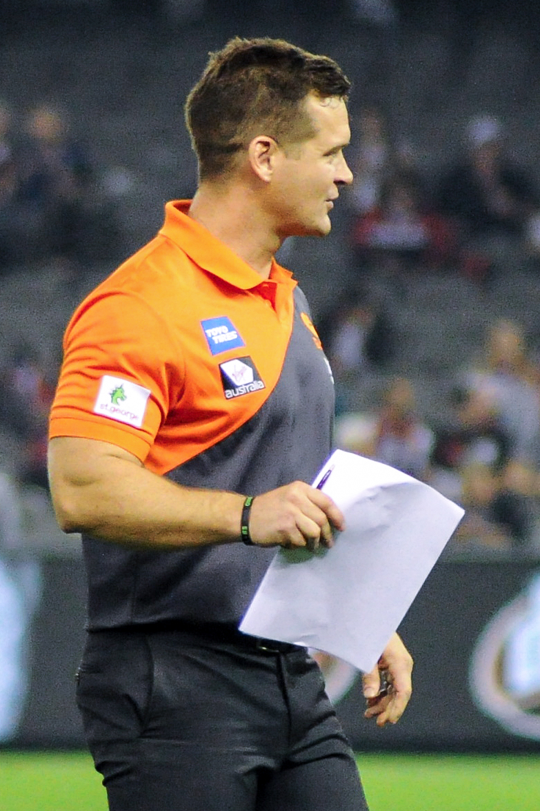 Amon Buchanan during the AFL round five match between St Kilda and Greater Western Sydney on 21 April 2018 at Etihad Stadium in Melbourne, Victoria.